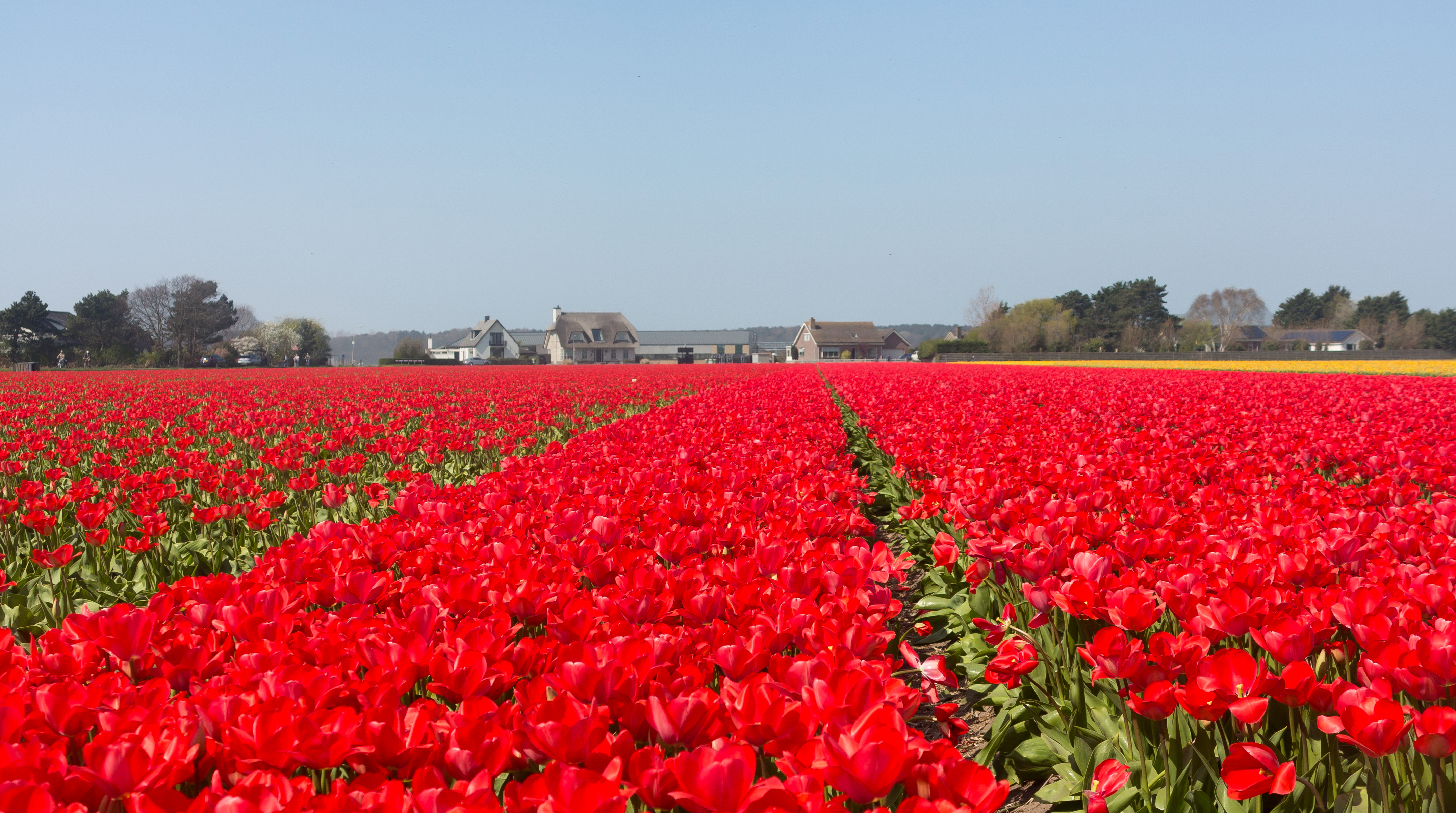 Noordwijkerhout, red tulips in the field